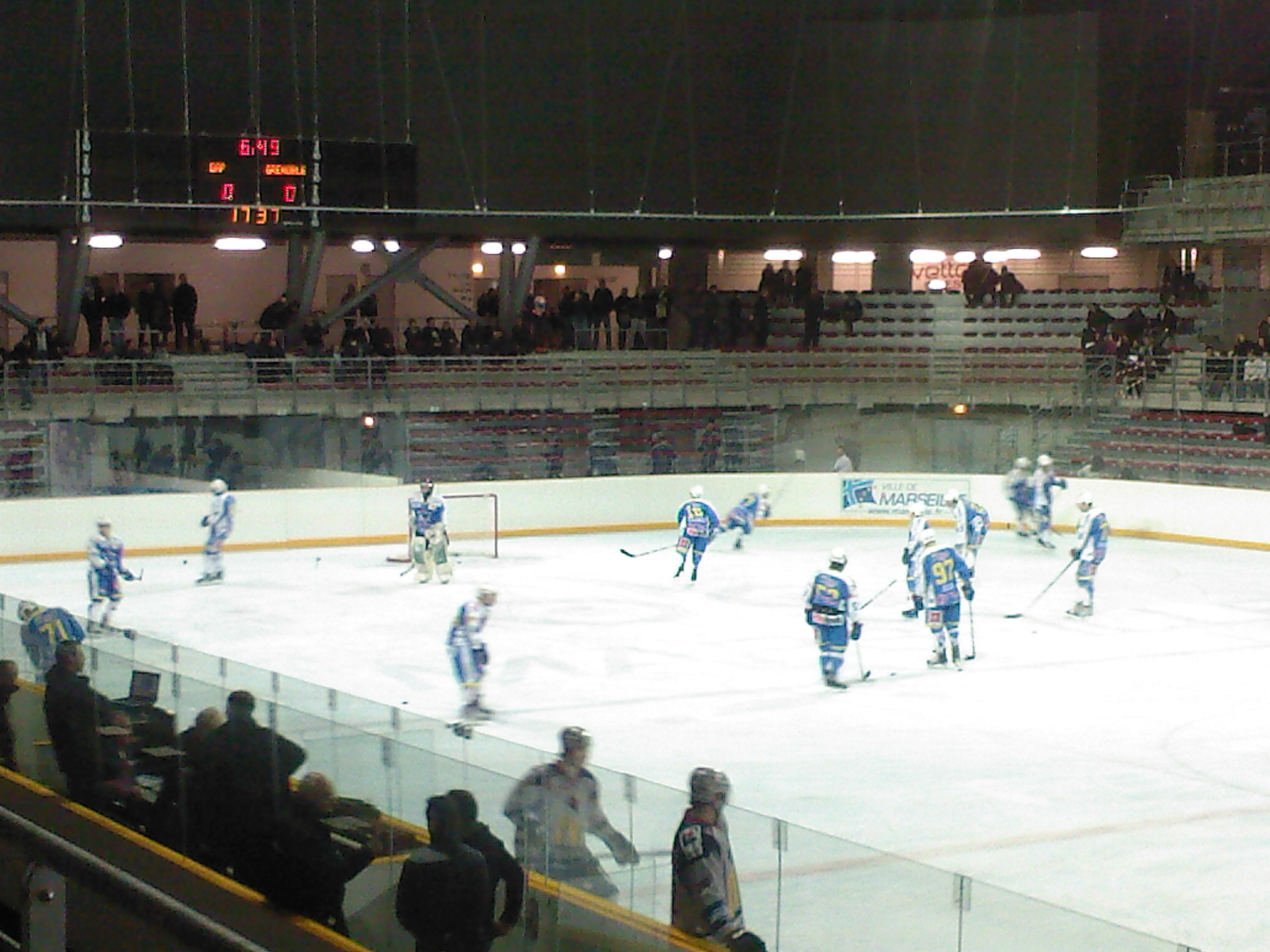 Gap hockey team training before game in Marseille arena